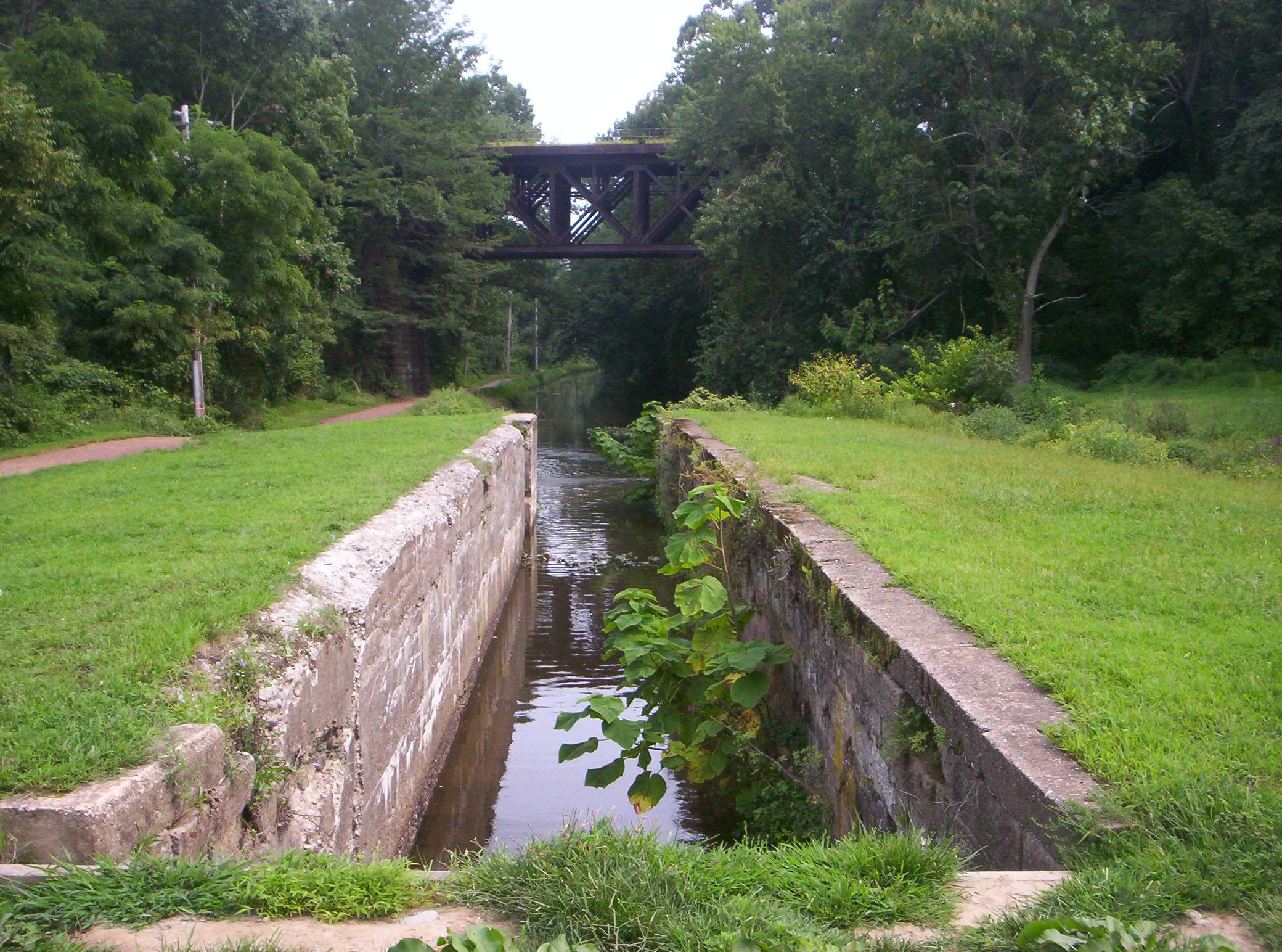 Delaware Canal State Park - SEPTA R3 West Trenton Line in background